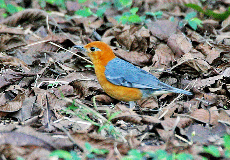 Orange-headed Thrush (Zoothera citrina) in Kolkata, West Bengal, India.